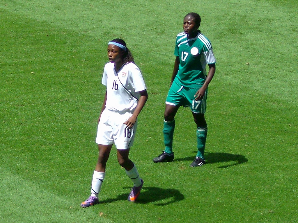 USA-Nigeria at 2010 FIFA U-20 Women's World Cup in Impuls Arena as “FIFA Women's World Cup Stadium Augsburg”:Maya Hayes (16) and Helen Ukaonu (17).